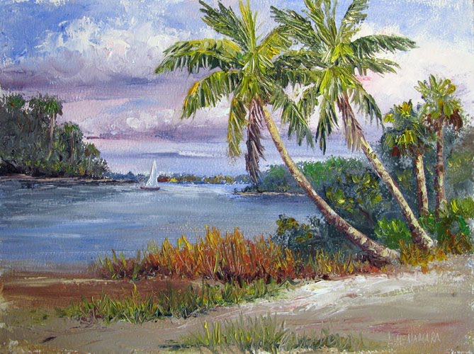 This is a photo of one of my paintings. Its title is Coconut Cove.